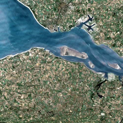 Escaut by SPOT Satellite